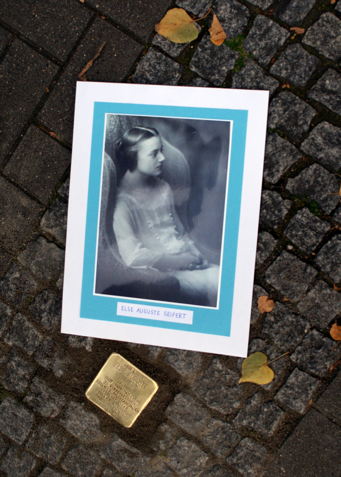 Portrait of Else Auguste Seifert (1902-1940), Stolperstein by Gunter Demnig (* 1947)